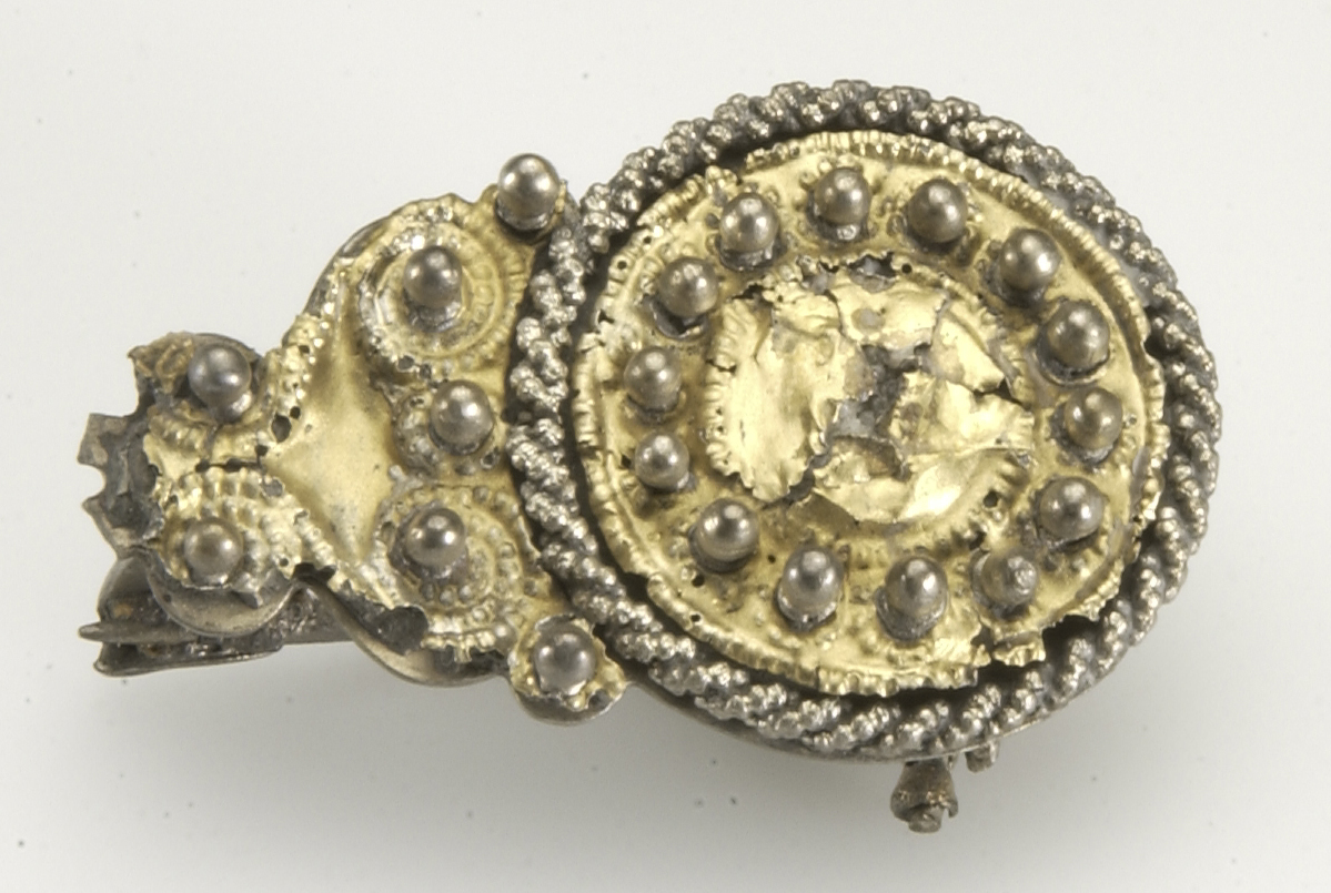 Germanic fibula, gilded silver, Roman period